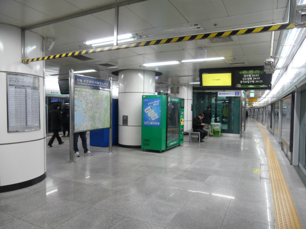 Platform of Seoul National University Station